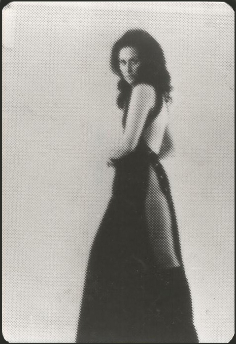 Patricia Victoria, the first Miss Black Velvet